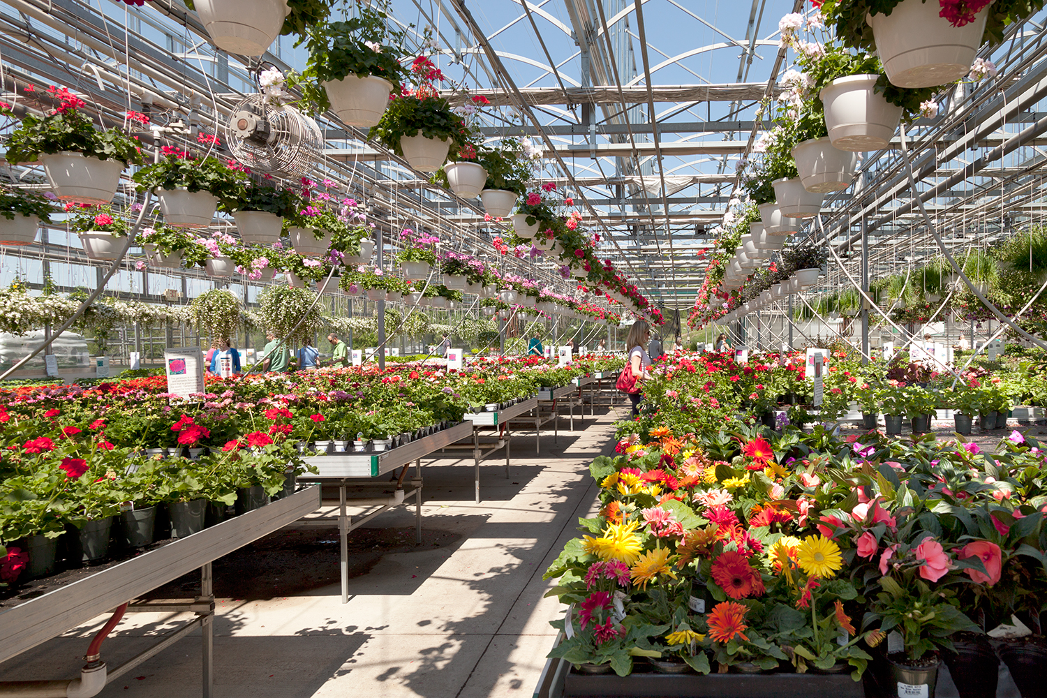 Volante Farms greenhouse in Needham, MA